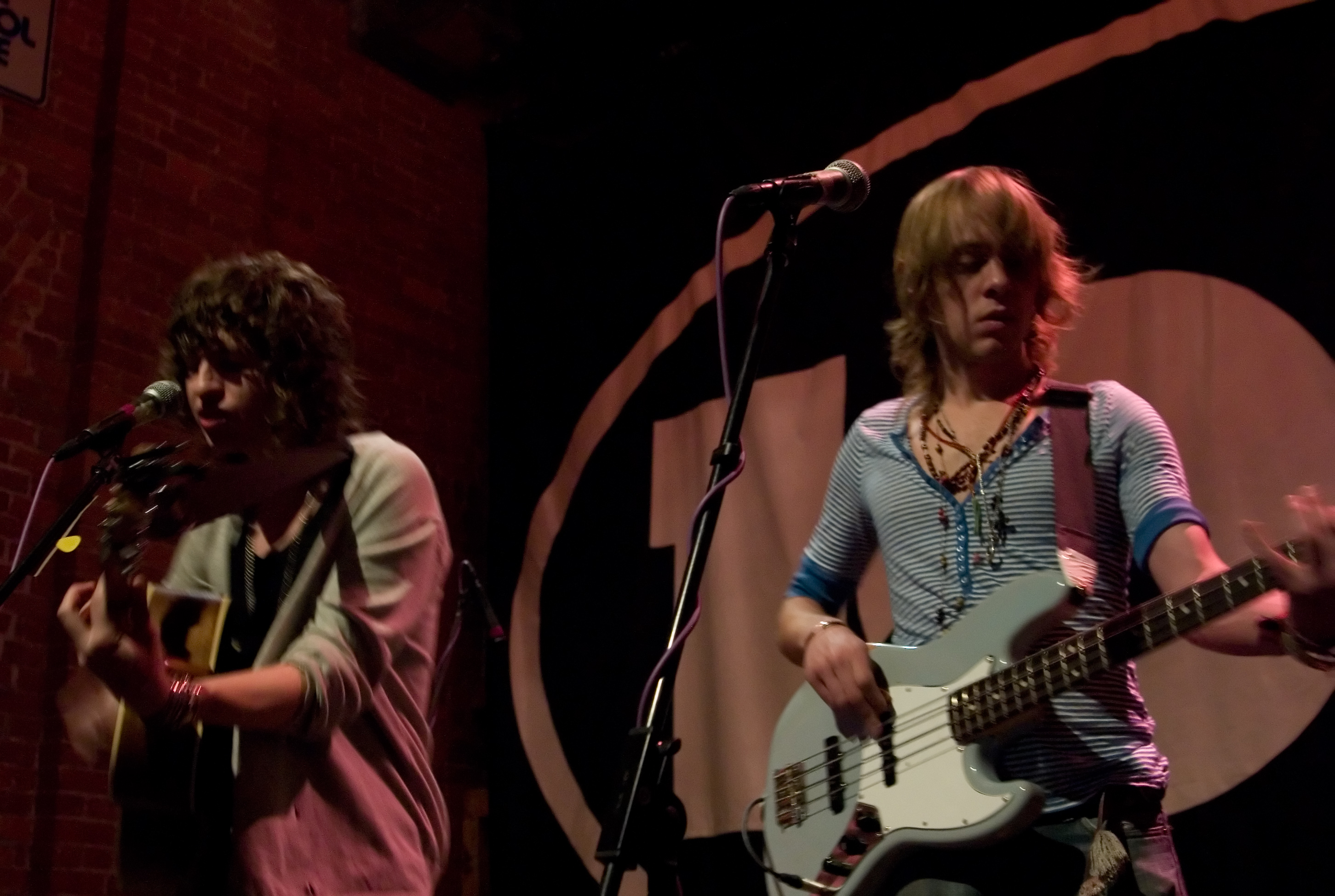 May 8, 2007 - Columbus, OH - The Kooks, a British Indie Rock band perform several songs in the CD101 studios for a small crowd while on their U.S. tour. On left, guitarist and lead vocalist Luke Pritchard and right bassist Max Rafferty.